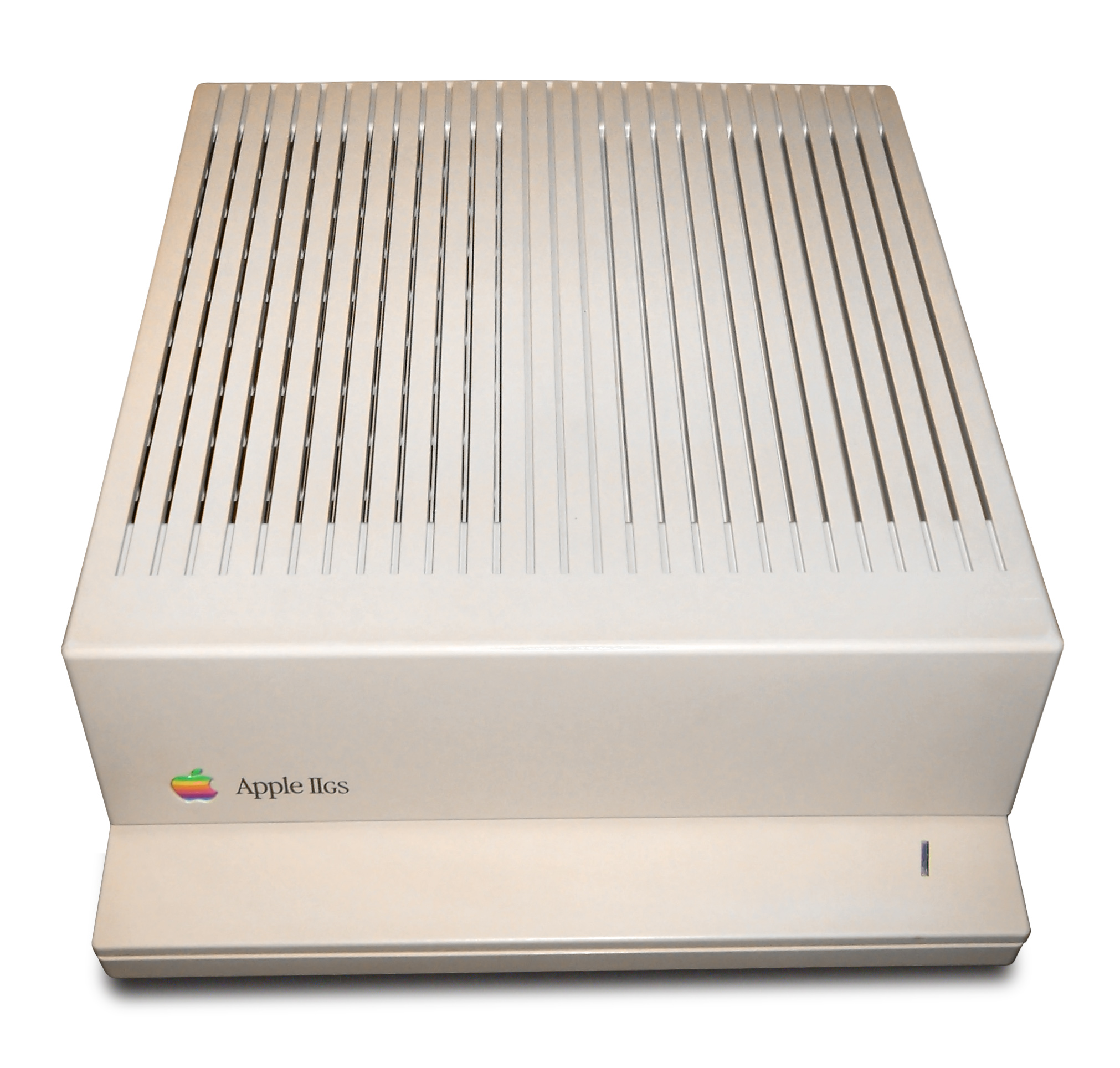 Apple IIgs